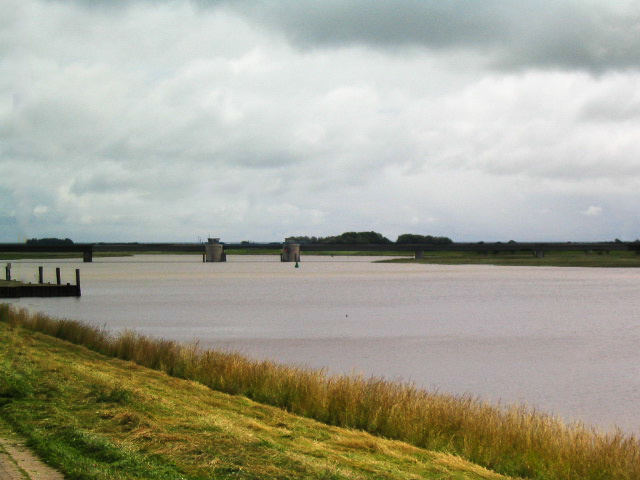 Bridge of Federal Highway 5 over the Eider River near Tönning.